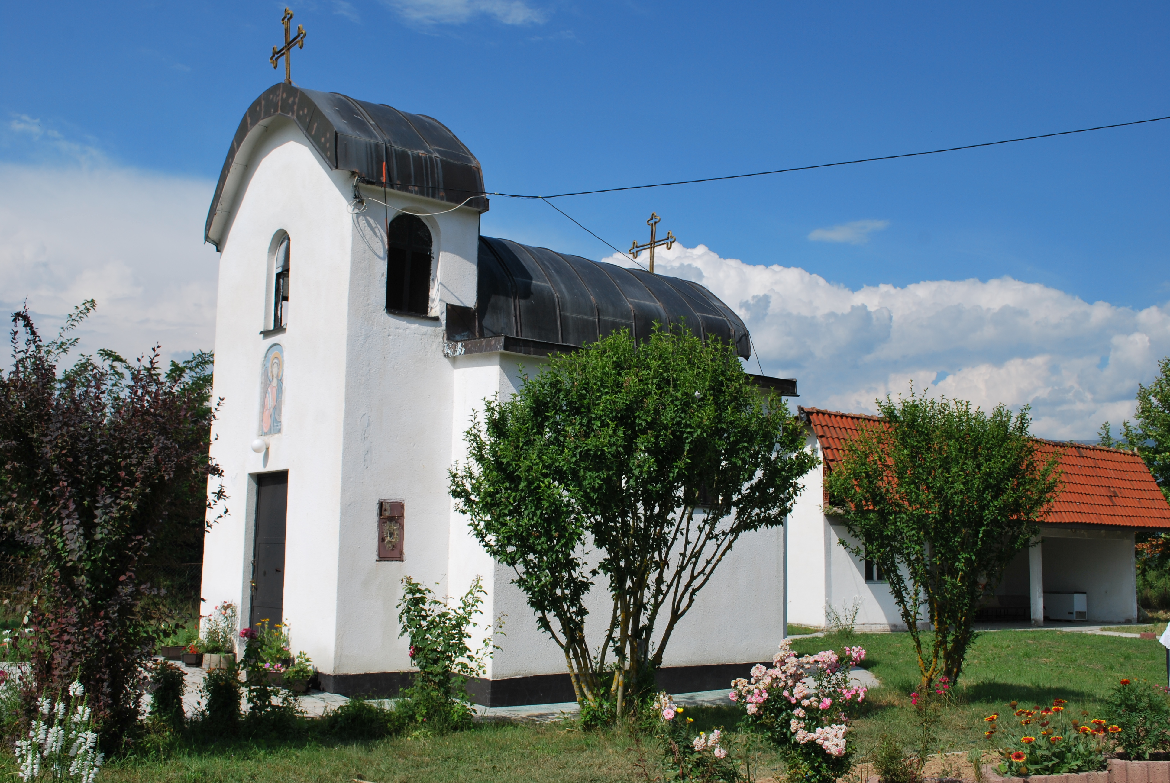 St. Gabriel the Archangel Church in Tumčevište, Macedonia